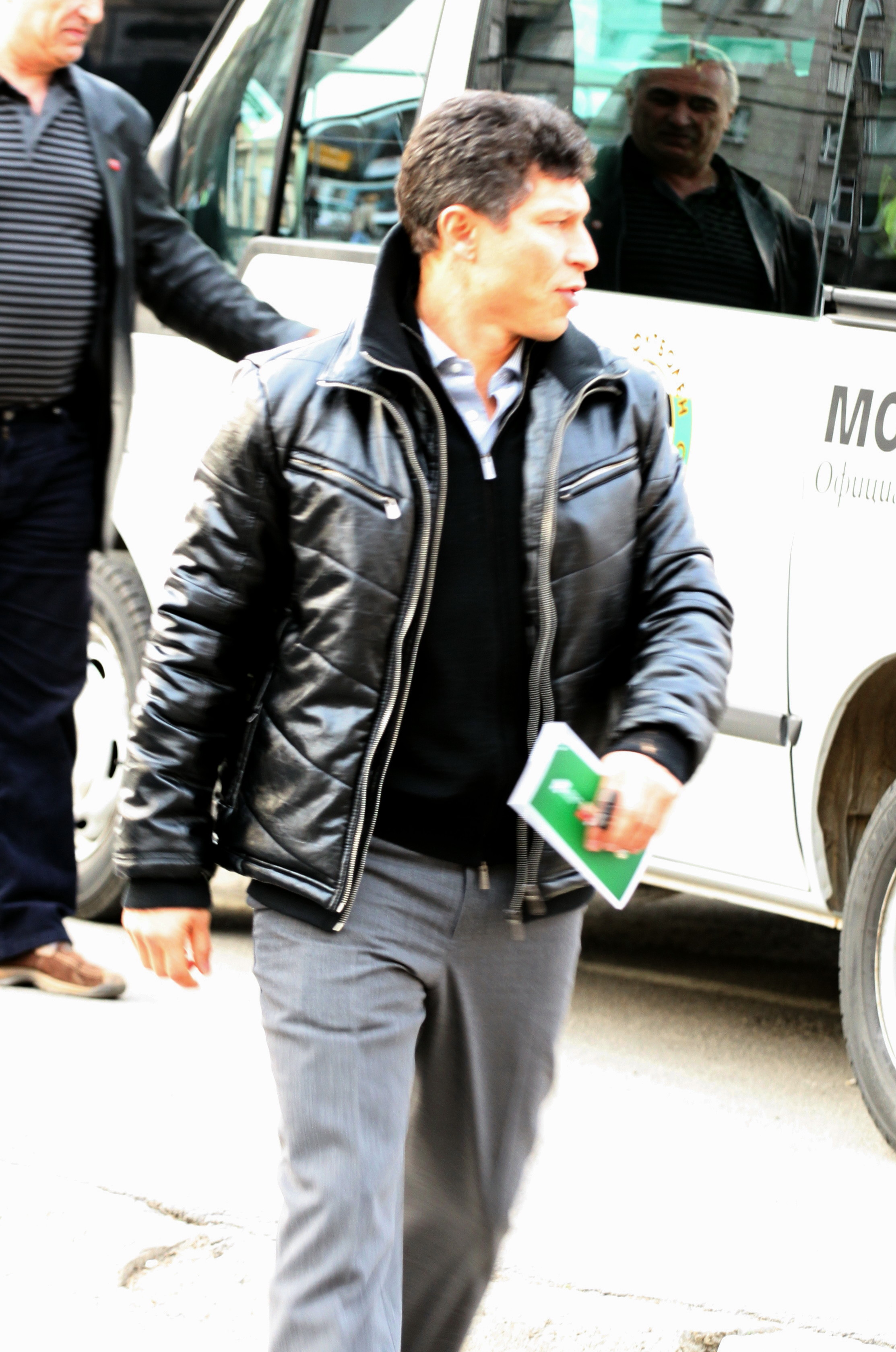 Krassimir Guenchev Balakov (Bulgarian: Красимир Балъков) (born 29 March 1966) is a former Bulgarian footballer and a key member of the Bulgarian national team that finished fourth in the 1994 FIFA World Cup. After Hristo Stoichkov, he is considered the greatest Bulgarian footballer of his generation.